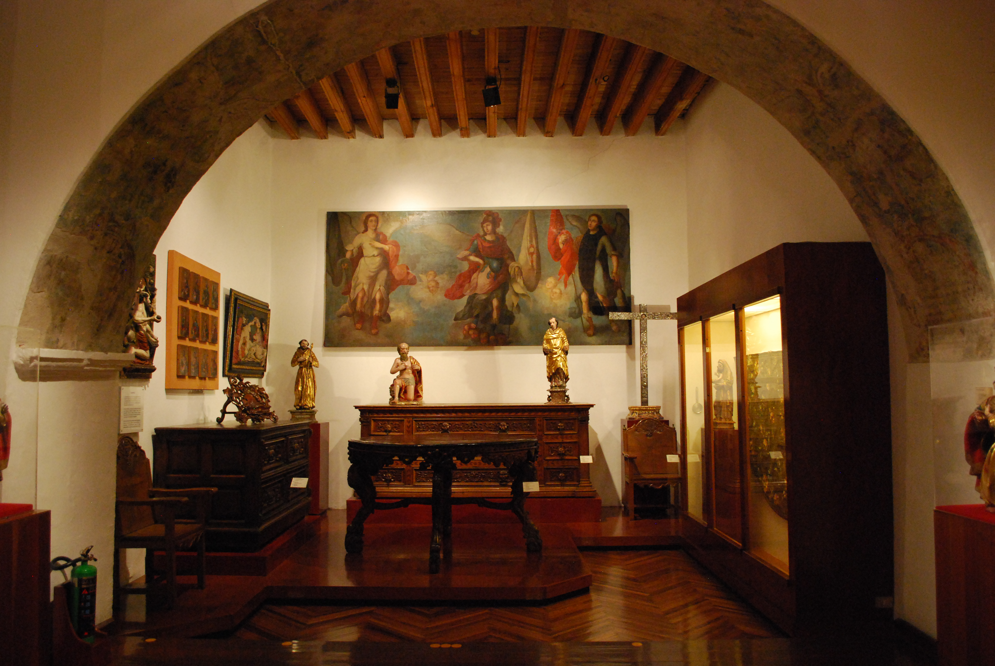 Room with religious items at the Franz Mayer Museum in Mexico City